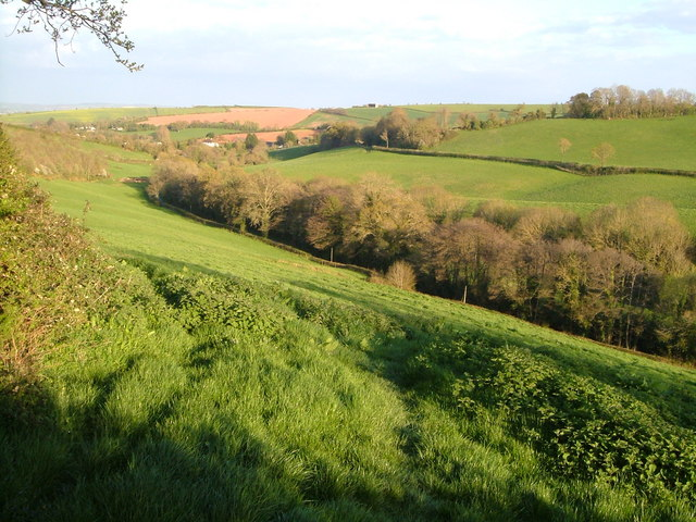 Fordland Bottom. View down the valley of the Fordland Brook from Haynes Lane. The straight field boundary on the far hillside is the line of the dismantled railway that linked to the Teign Valley line via Perridge tunnel - the inland route to South Devon.